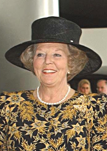 Queen Beatrix of the Netherlands.